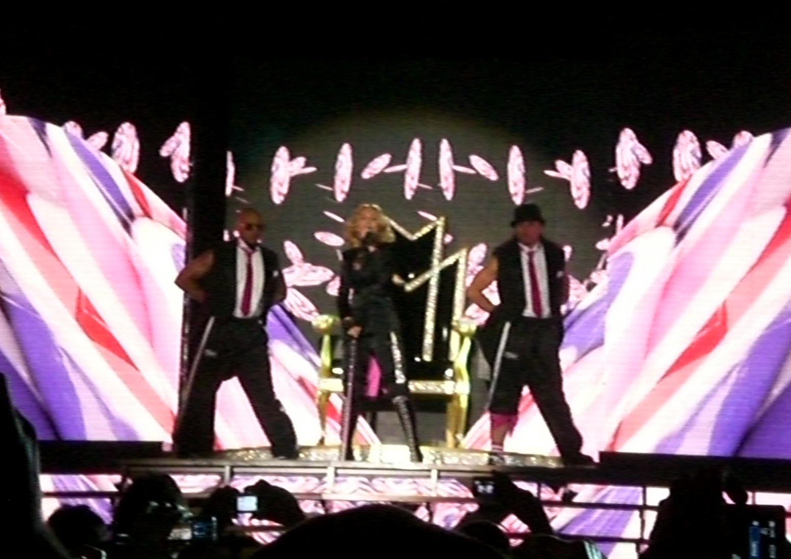 Madonna, Radio 1's Big Weekend, Mote Park, Maidstone